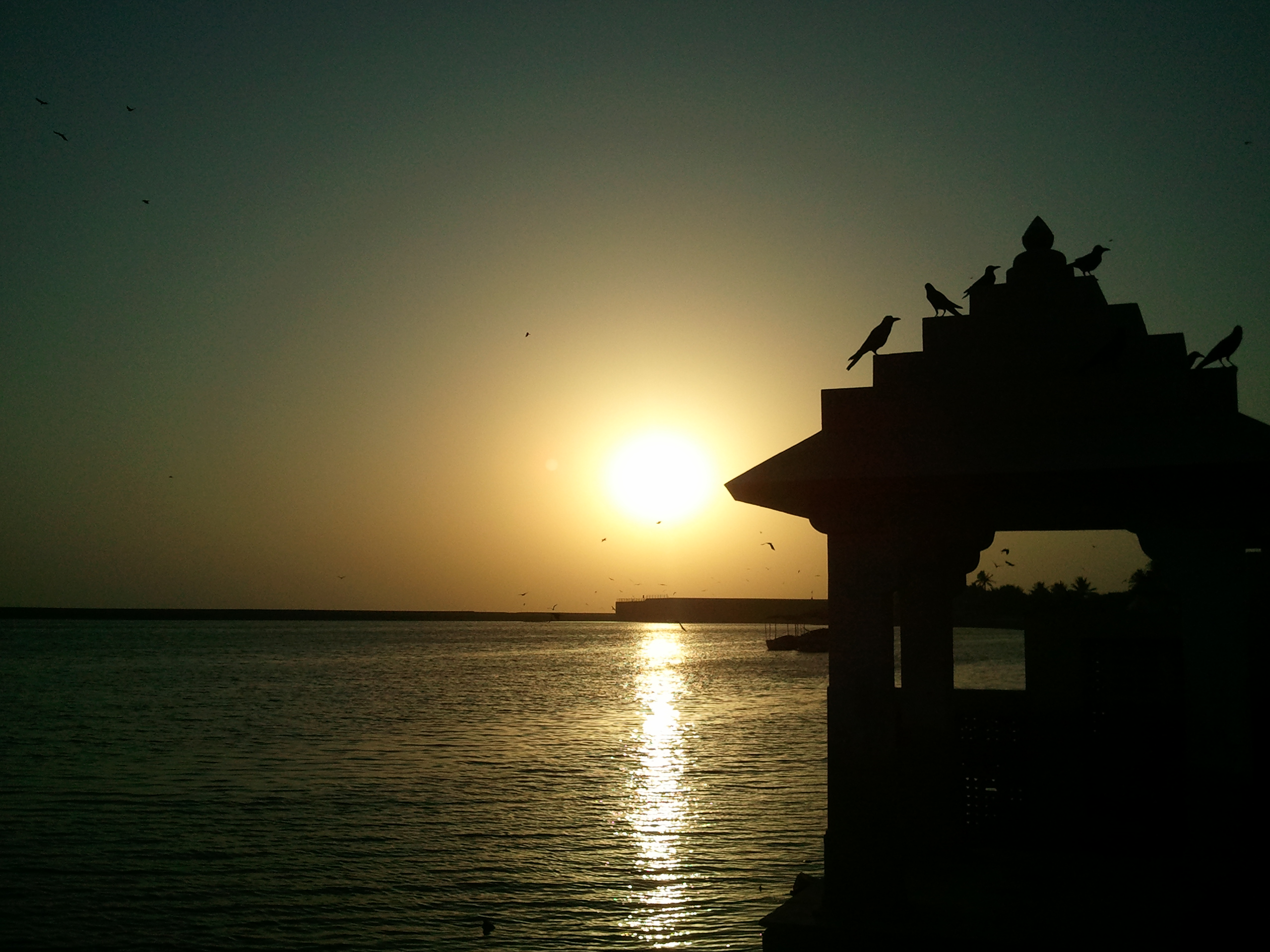 Triveni Ghat in Somanth is the confluence of three holy rivers namely Kapil, Hiran and a mystical River Saraswathy. It is believed that the rivers flow to the ultimate destination of Sea from here. This symbolizes the human birth, life and death. This is a sacred location for taking dip in the Triveni Sangam. It is believed that the holy bath in the waters at this Ghat offers relief from all curses and ills happened in the whole life. Triveni Ghat has a significant place in Hindu Mythology and Puranas. This ghat was mentioned many places in Puranas and great epics Ramayana and Mahabharata. It is believed that Lord Krishna paid a visit to this holy spot after he was hit by an arrow shot by Jara, a hunter. This is a highly revered place in Somnath. The famous temples Gita Mandir and Lakshminarayan temple are located on the banks of Triveni Ghat.